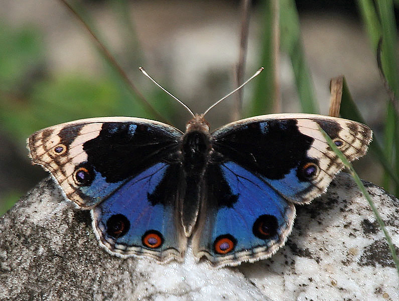 Blue Pansy Junonia orithya . Shot taken at Kasol (6500 ft.), Kullu distt. of Himachal Pradesh, India during Sar Pass Trek.